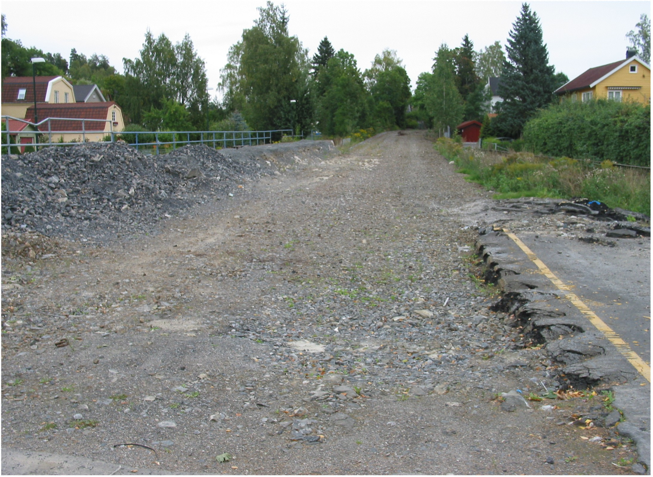 Egne Hjem Station in a demolished state.